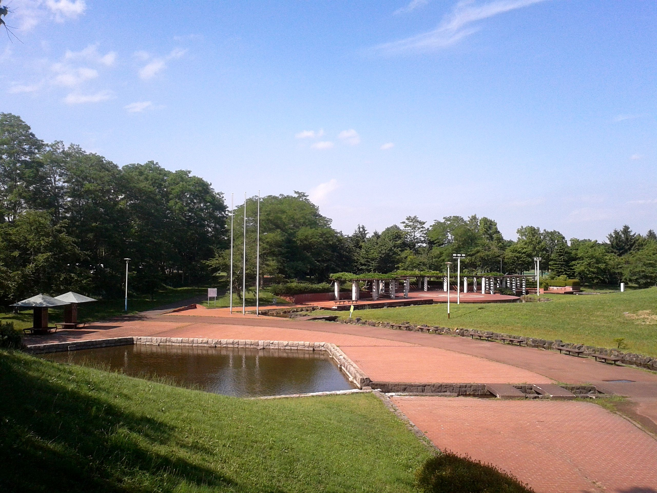 Megumino Chuo Park in Eniwa, Hokkaido